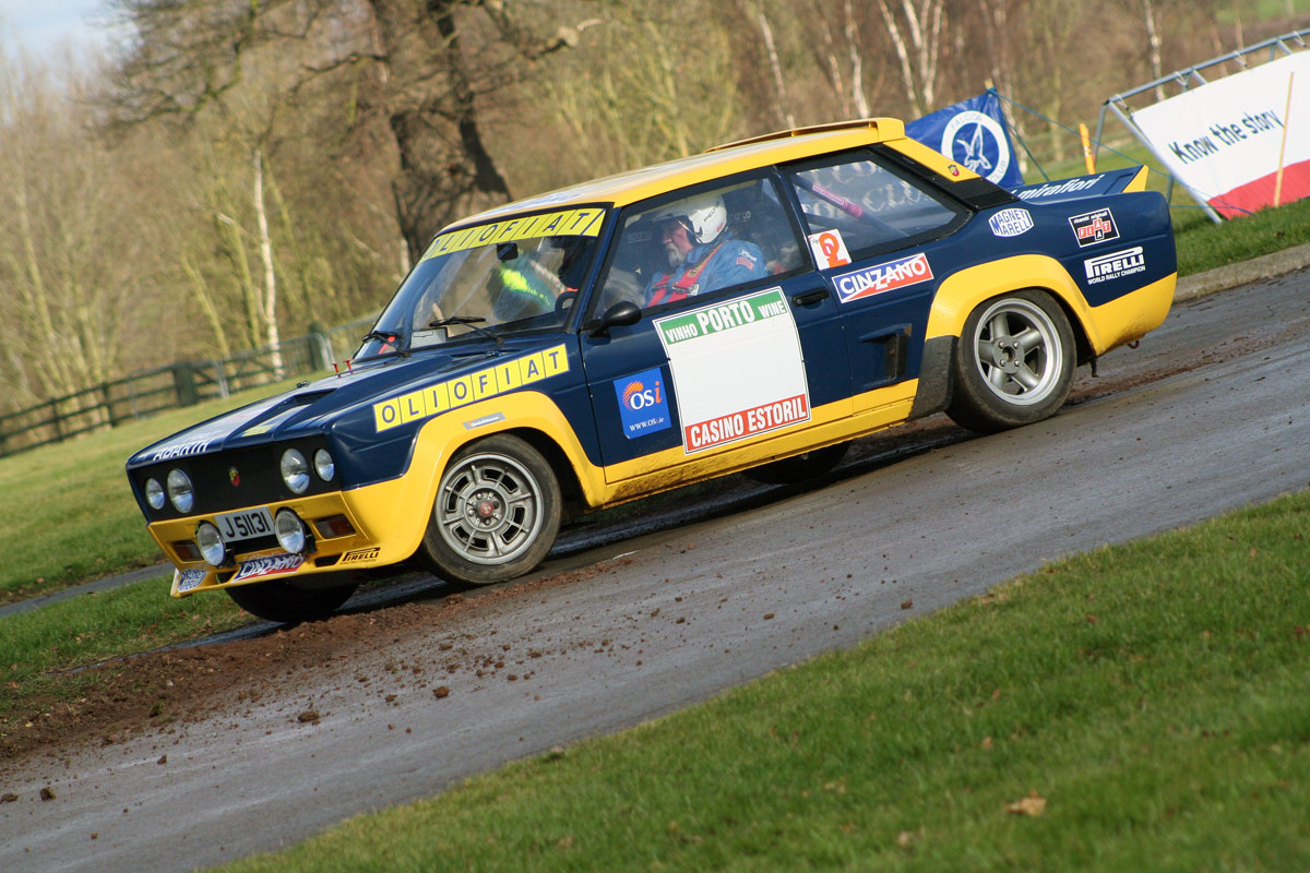 Fiat 131 Abarth Rally